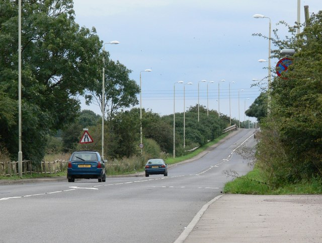 The B4114 Coventry Road Also known as The Fosse Way Roman Road.